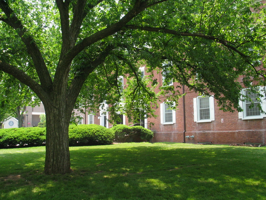 The colonial chartered Rutgers University features era architecture, although the architecture is from the Colonial Revival in the 20th century. (There are also buildings of different styles from the 19th century; the current campus was begun in the 1810s.) The example shown is of the College Avenue Gym, which dates from 1937.